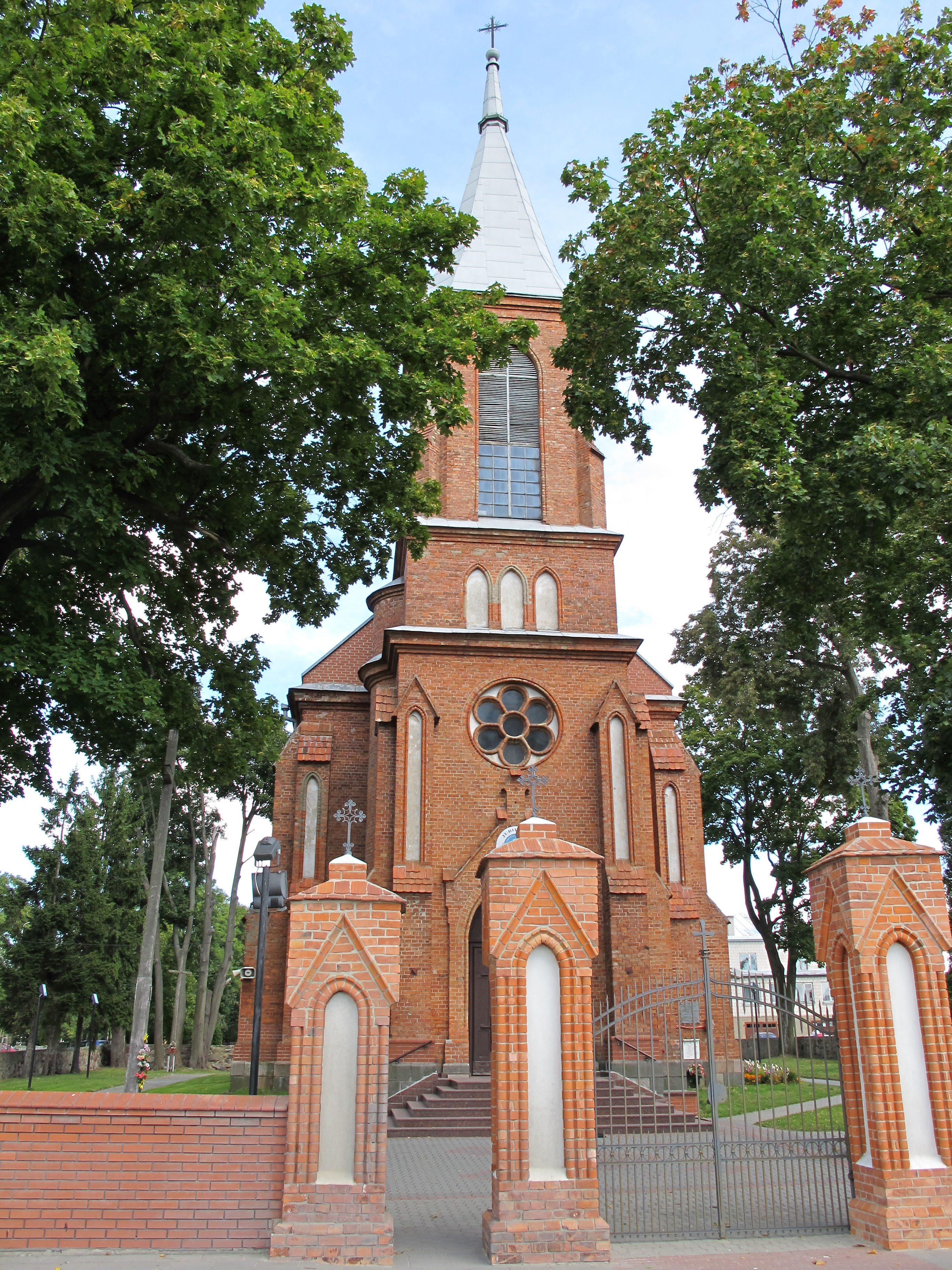 Saint Adalbert of Prague church by Kościelna 8 street in Uhowo, gmina Łapy, podlaskie, Poland